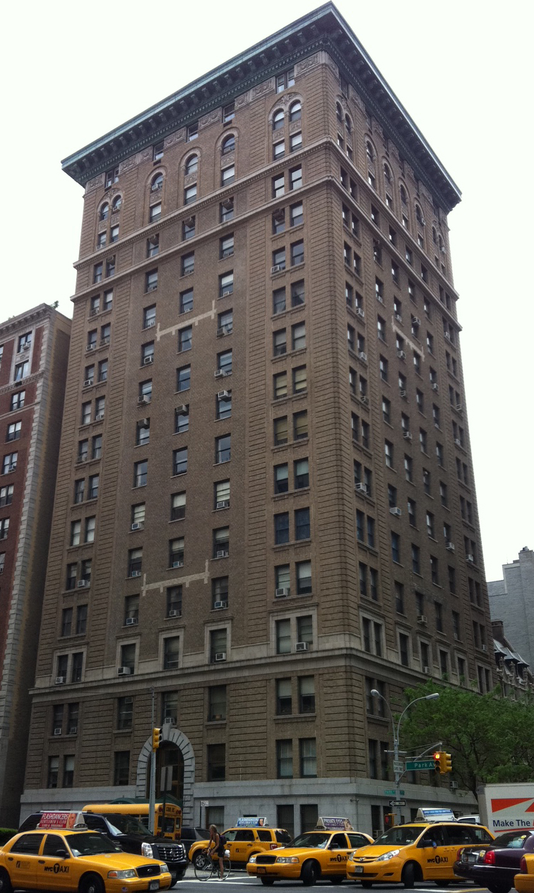 New York City apartment building. Bing & Bing developers. Robert T Lyons architect.